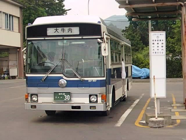 JR Bus Tohoku 337-7417 Hino P-RJ172BA at Iwaizumi Sta.